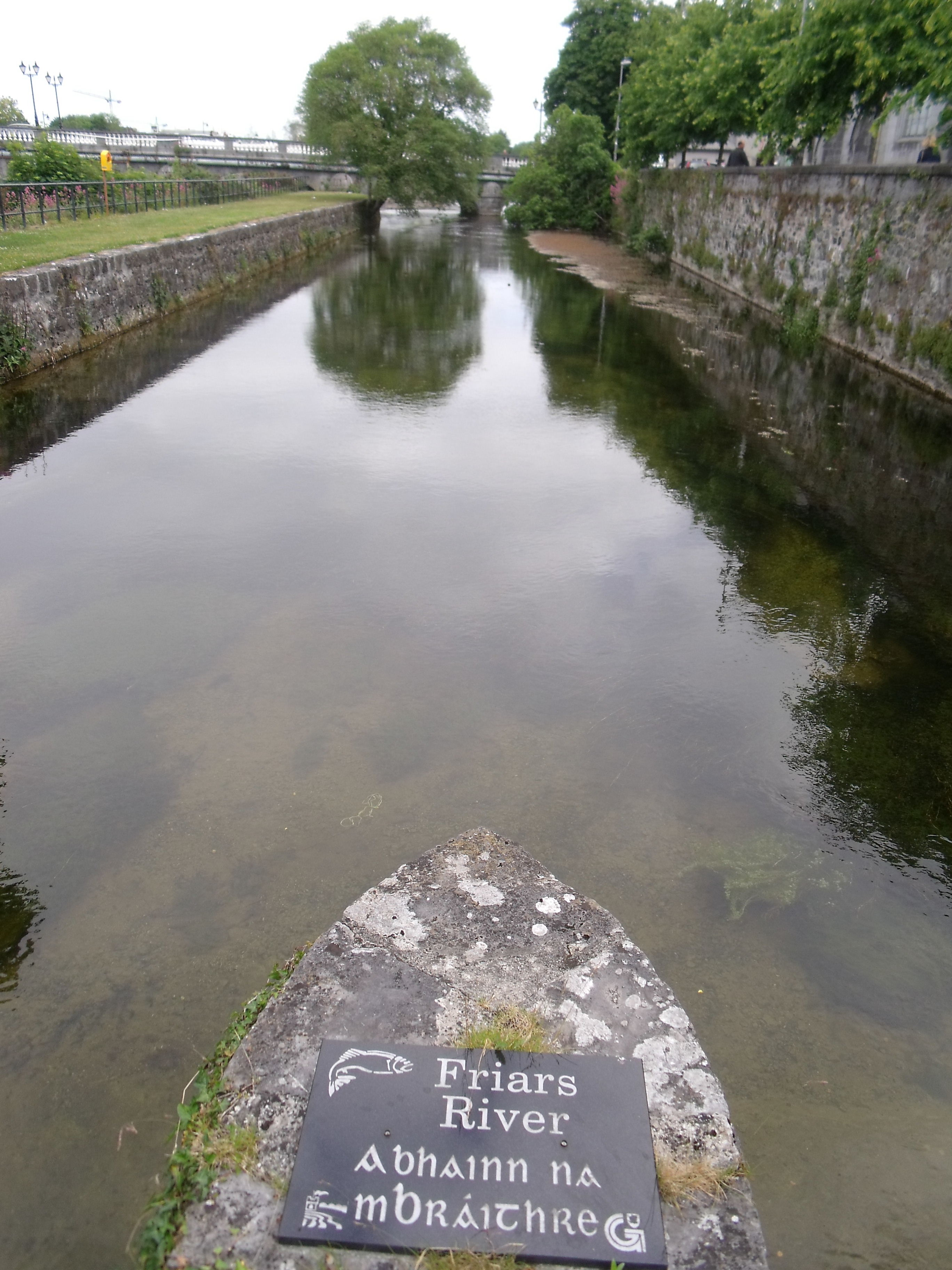 Canal of the River Corrib in Galway city centre.